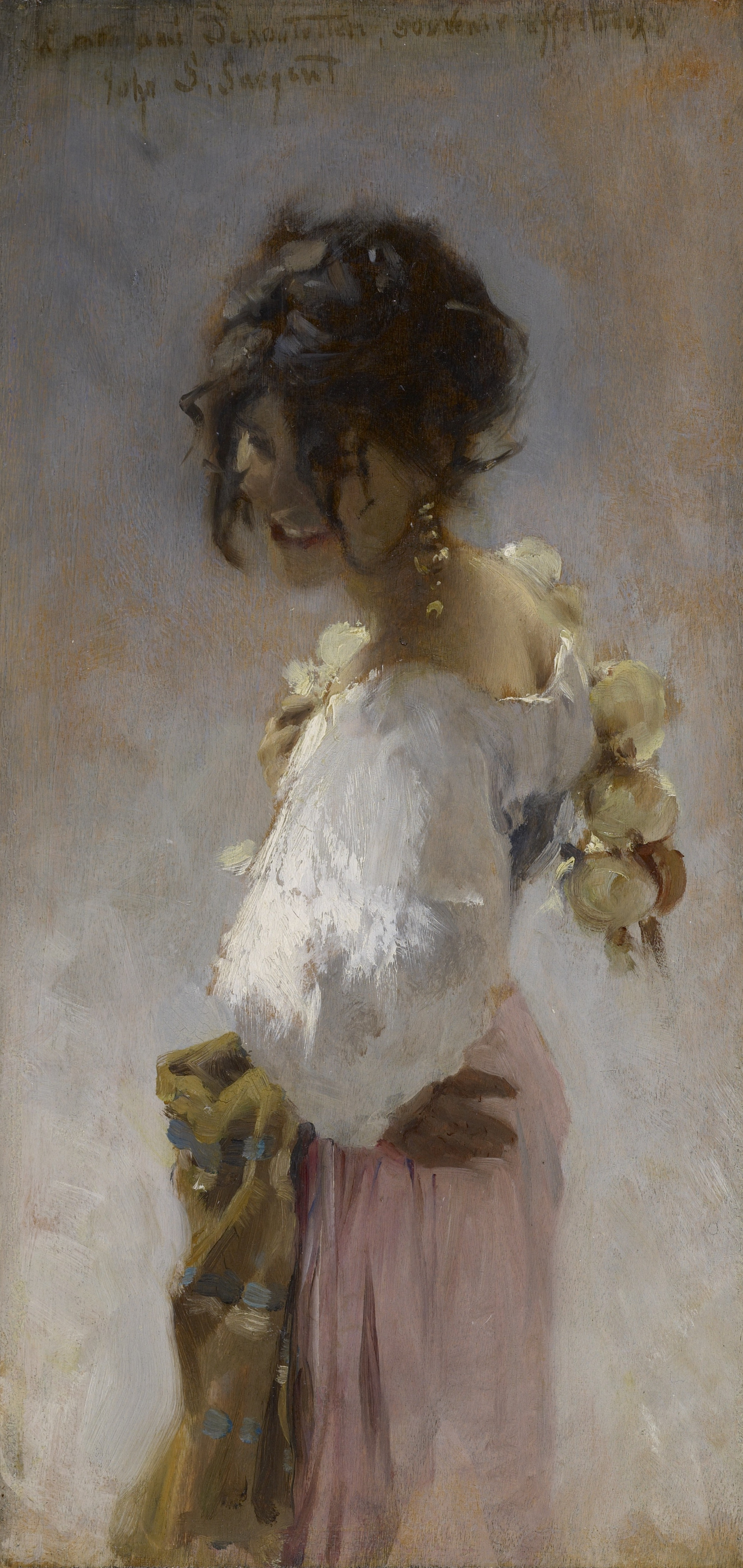 Portrait of Rosina Ferrara